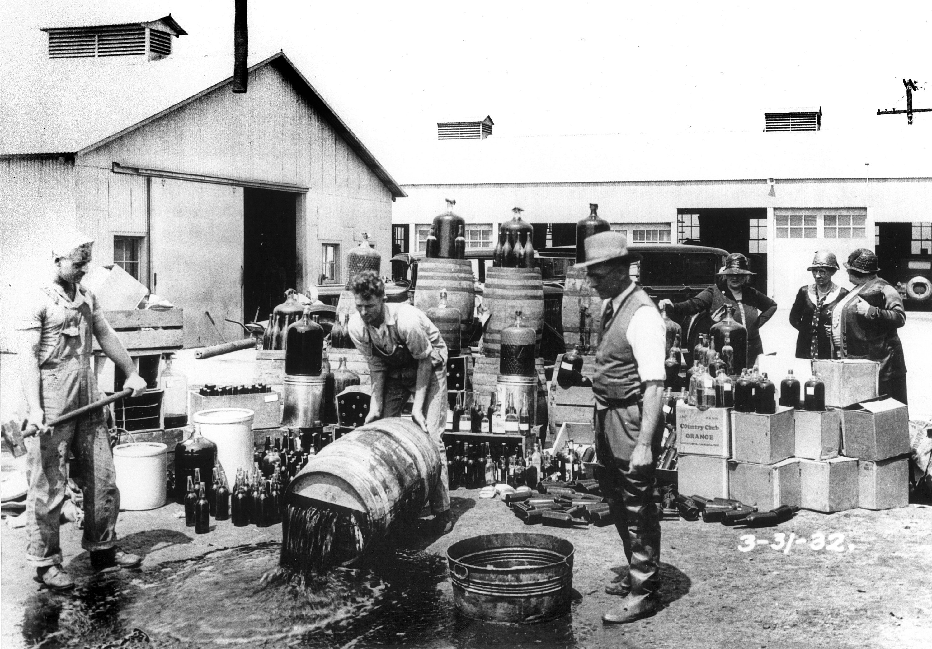 There are no known copyright restrictions on this image. All future uses of this photo should include the courtesy line, "Photo courtesy Orange County Archives." Comments are welcome after reading our Comment Policy .